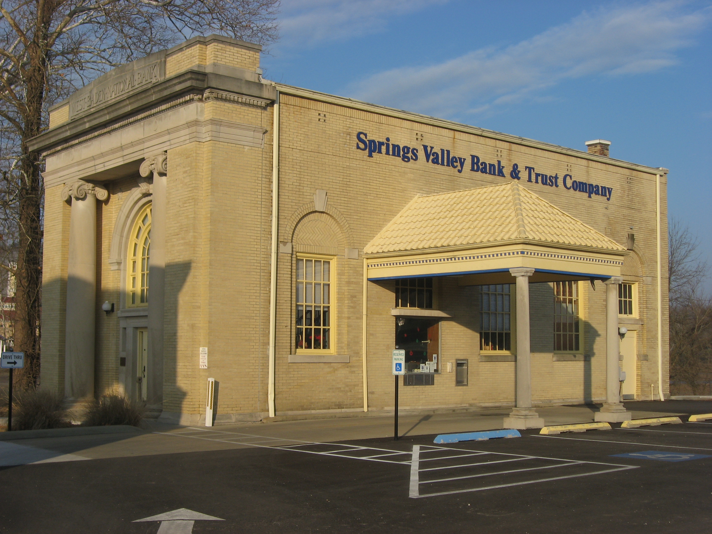 Front and eastern side of the West Baden National Bank, located on the western side of Broadway Street (State Road 56) at the entrance to the West Baden Springs Hotel in West Baden Springs, Indiana, United States. Built in 1917, it is listed on the National Register of Historic Places.